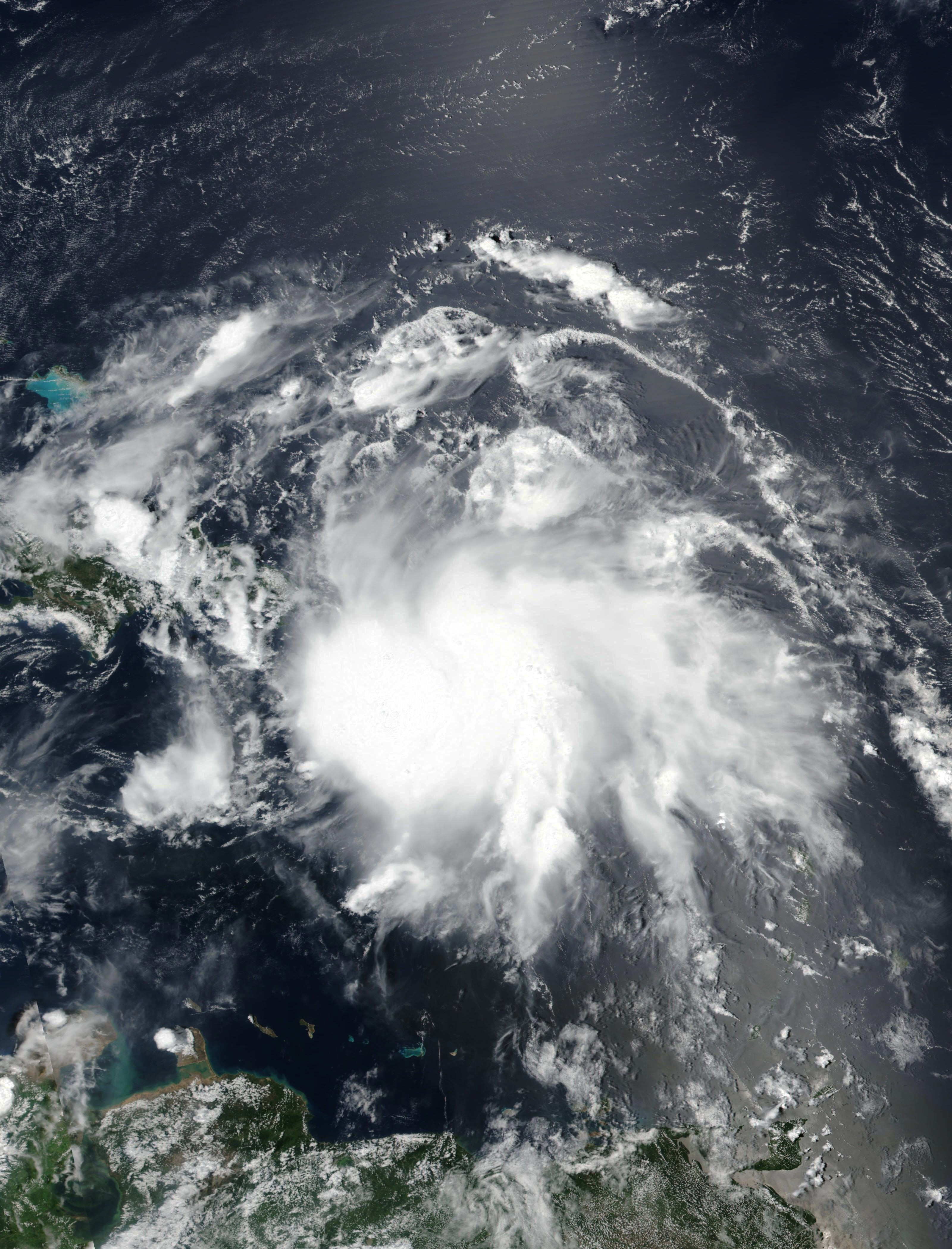 Tropical Storm Laura on August 22, 2020